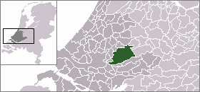 Location of the Krimpenerwaard community in the Netherlands.